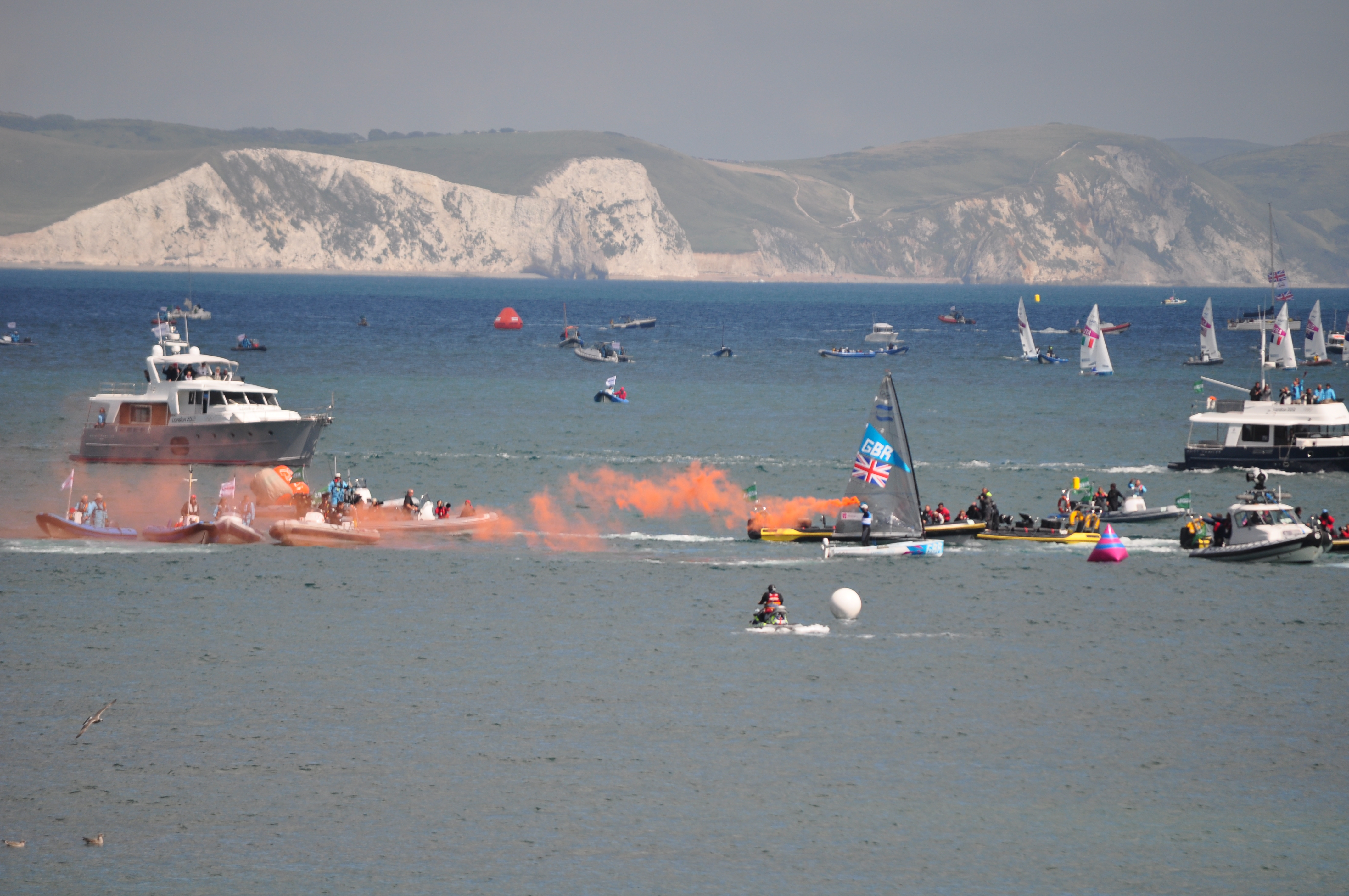 Fantastic to see team GB win silver and gold, and to see so many other countries competing. Weymouth is where I grew up and has a great beach and all the fun of a traditional English seaside town. You can get spectacular views of the Olympic sailing for free, where I have indicated on the map. There are good trains or park and ride to get into the town. GO if you can!